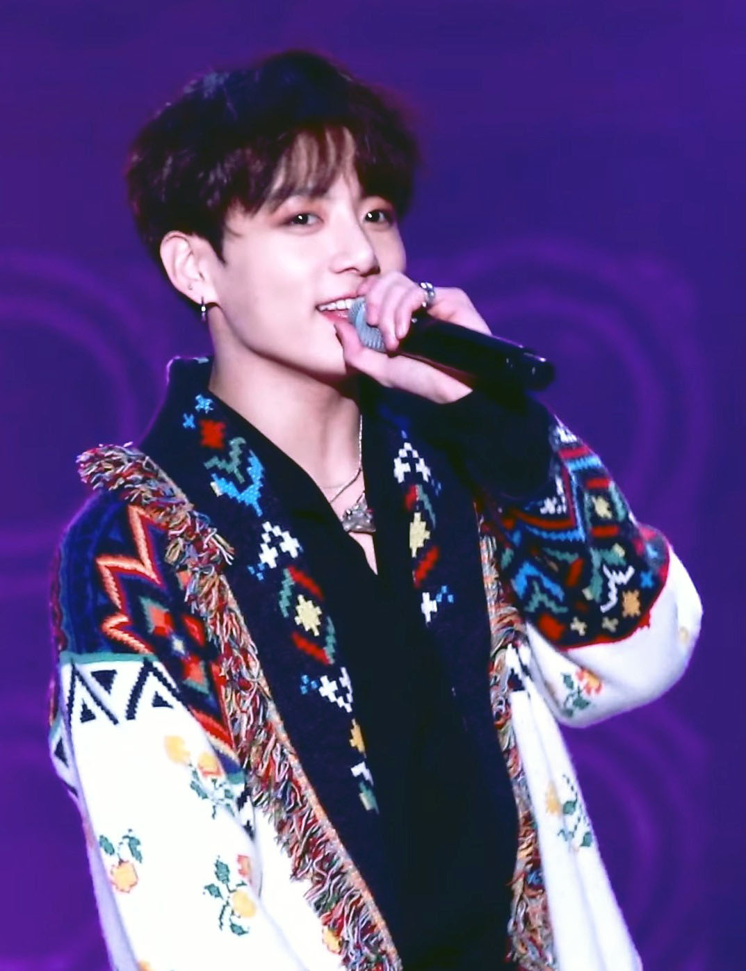 Jeon Jung-kook during the "Boy In Luv" performance at SBS Gayo Daejeon, 25 December 2018